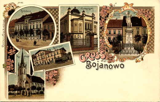 Synagogue in Bojanowo